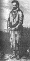 Belarussian slave. Józef Oziębłowski